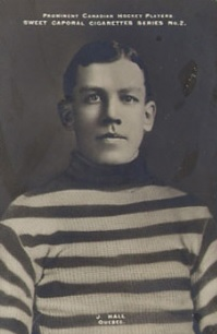 Postcard of Joe Hall